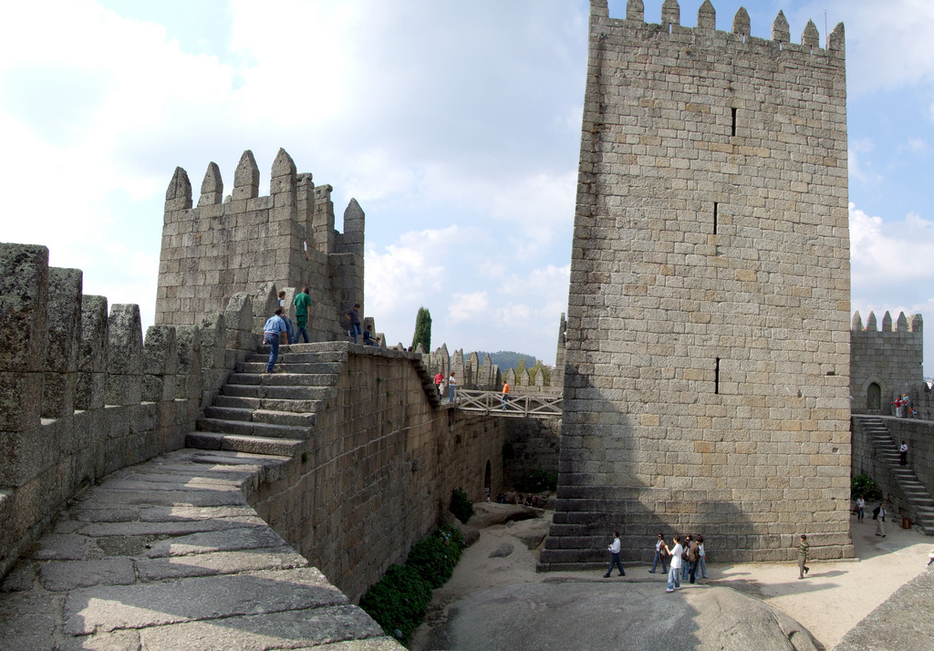 The Guimarães Castle, located in the city of Guimarães, Portugal, was ordered to be built by Dona Mumadona Dias in the 10th century in order to defend its monastery from Muslim and Norman attacks. Count Dom Henrique (to who the County of Portugal had been granted) chose Guimarães to establish his court. The fortress, then over a century old, needed urgent renovation. The nobleman chose to destroy what remained from Mumadona's construction, while extending the area of the castle and adding two entrances. The locality, where the castle was, continued to be the official royal residence through much of the 11th and 12th centuries.